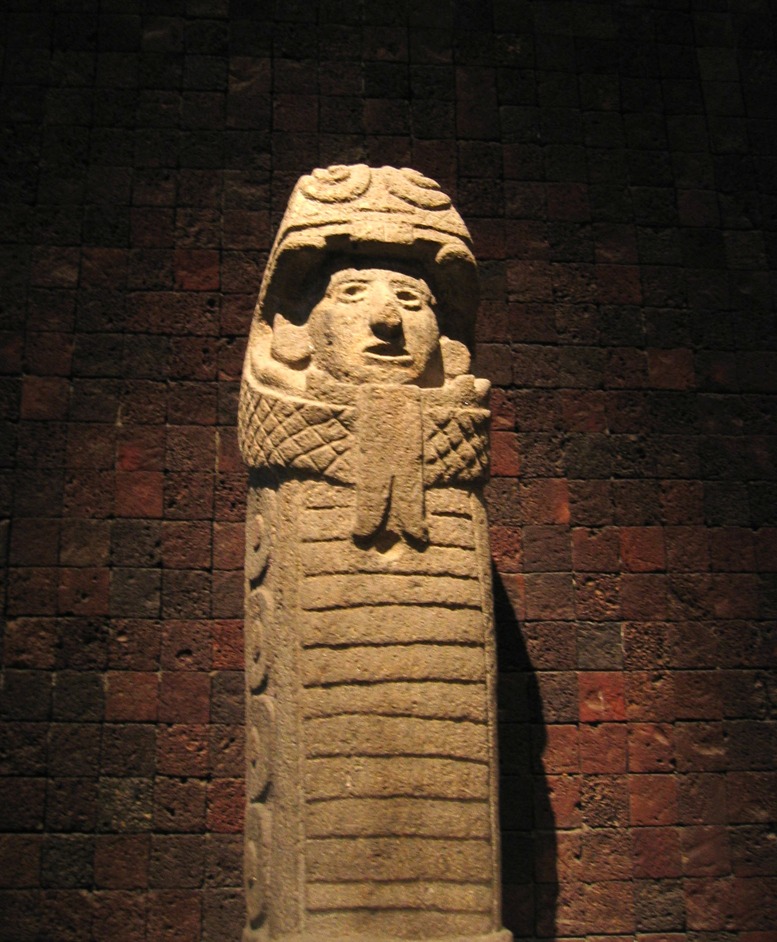 Collection of Museo Nacional de Antropología, Mexico City. Originally uploaded to